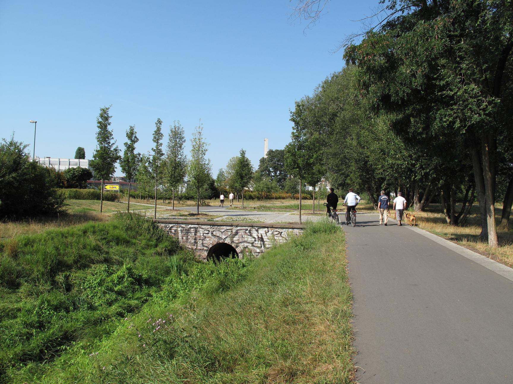 „Grünzug Bullengraben“, part 4. The Bullengraben (german for: bullditch) is a drainage channel to the river Havel in the localities Staaken, Wilhelmstadt and Spandau in the borough Berlin-Spandau, Germany. In 2007 there was opened the green space Bullengraben (german: „Grünzug Bullengraben“) along the 4,5 kilometre long ditch.